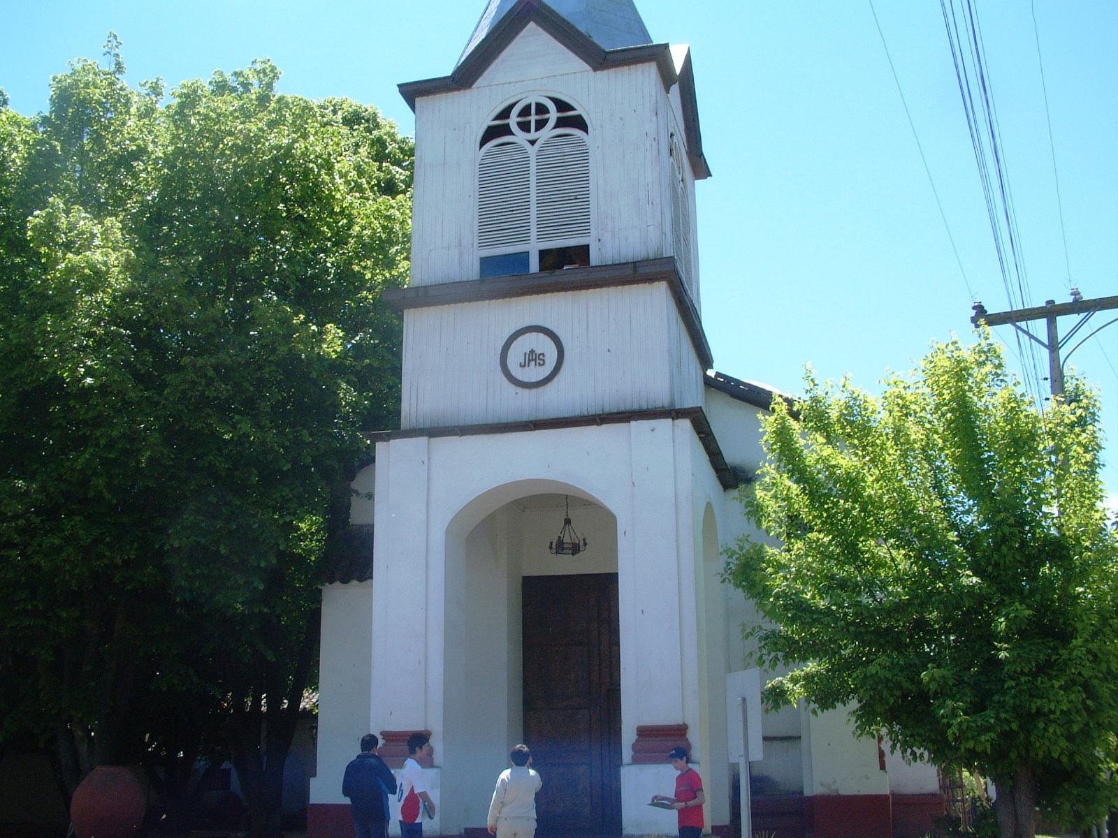 Iglesia de Guacarhue This is a photo of a national monument in Chile: 374